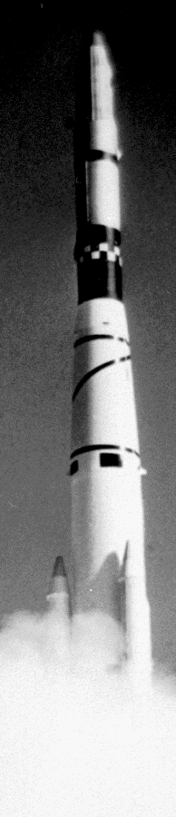 Thor SLV-2A Agena D rocket with Corona 69 satellite